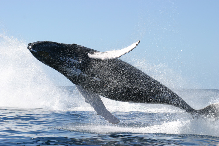 Humpback whale